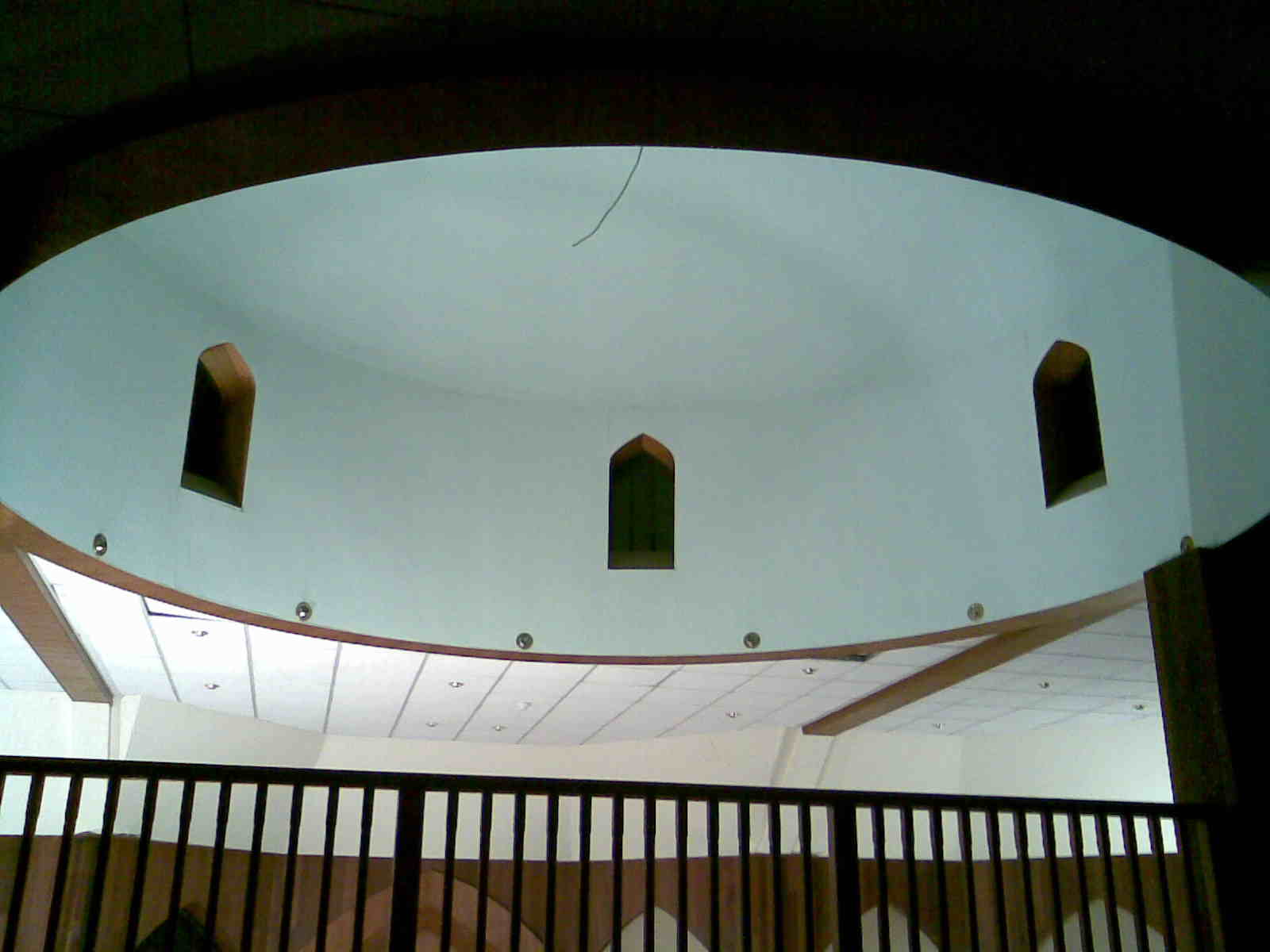 The interior of the dome inside the North London Central Mosque, in Finsbury Park.